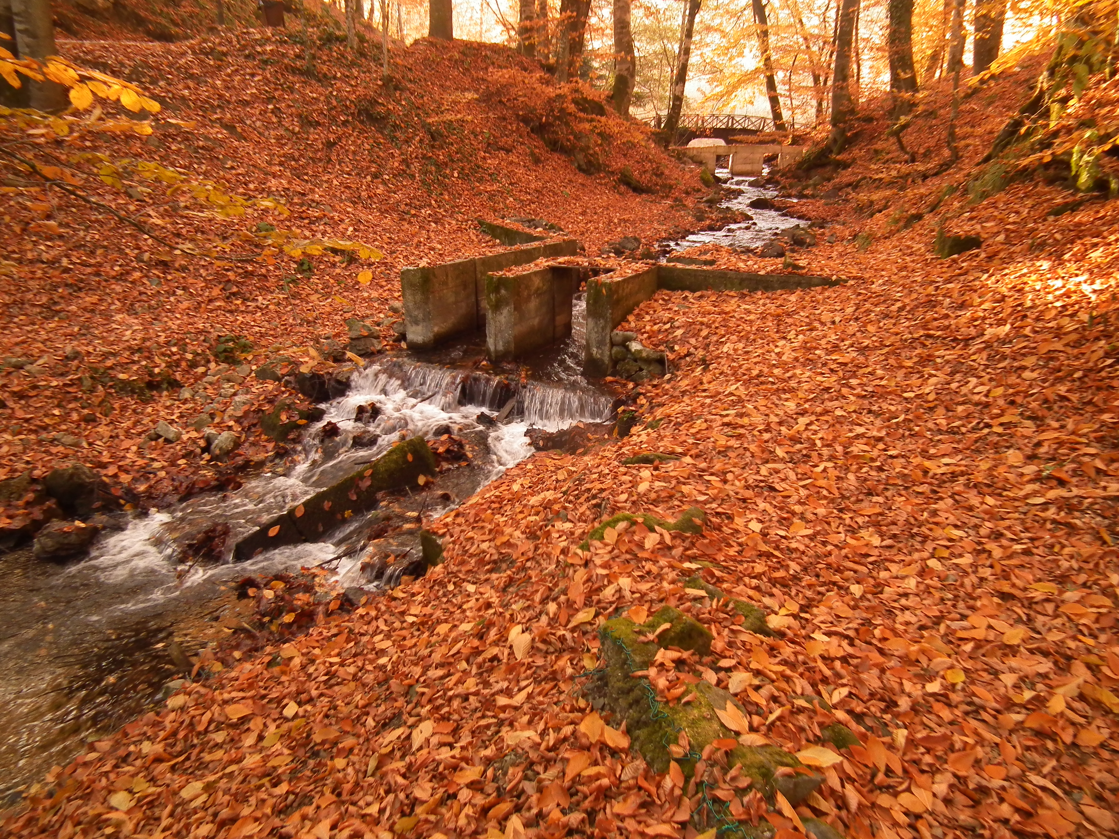 Bolu, Yedigoller National Park